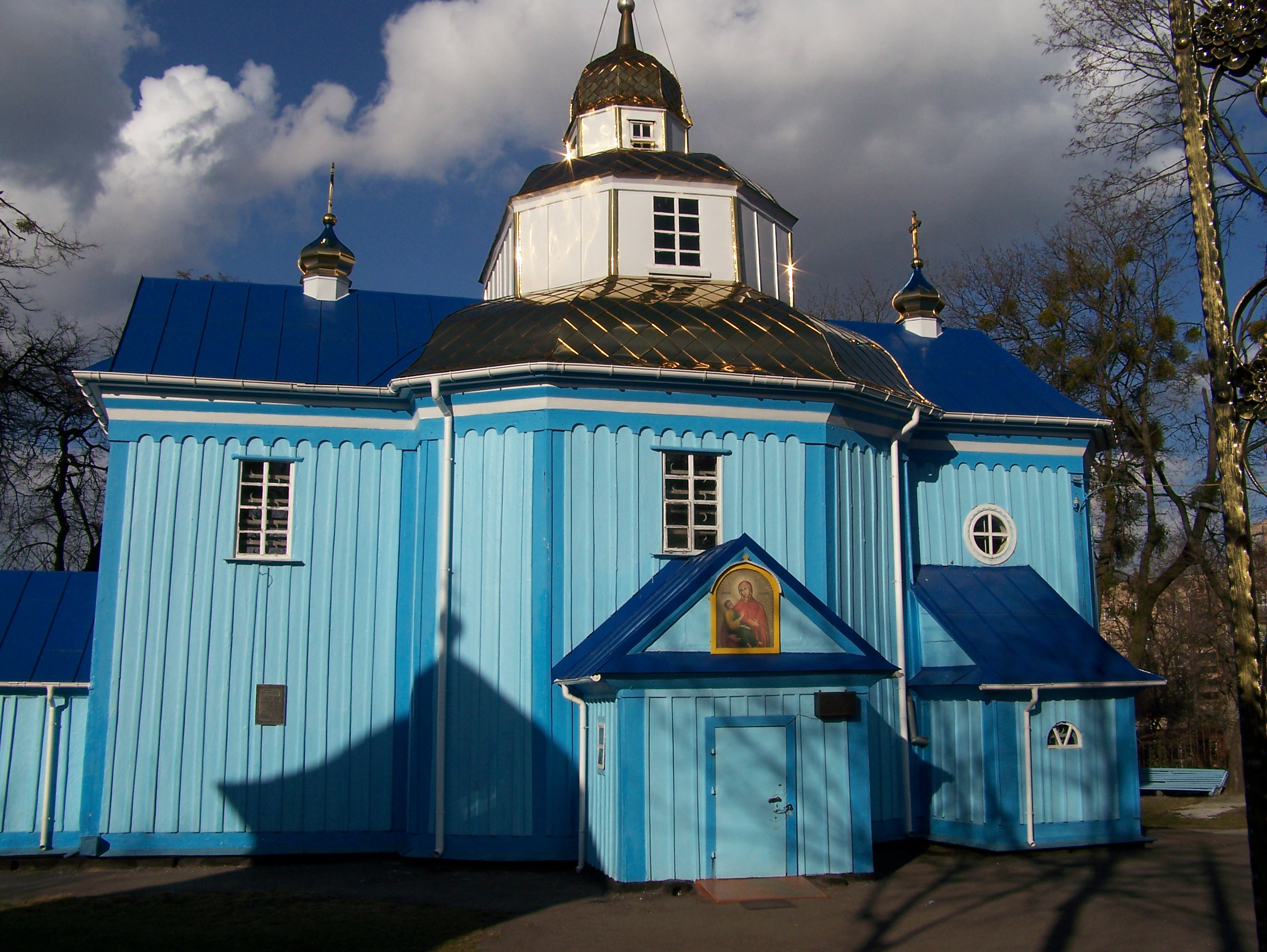 The Church of the Assumption